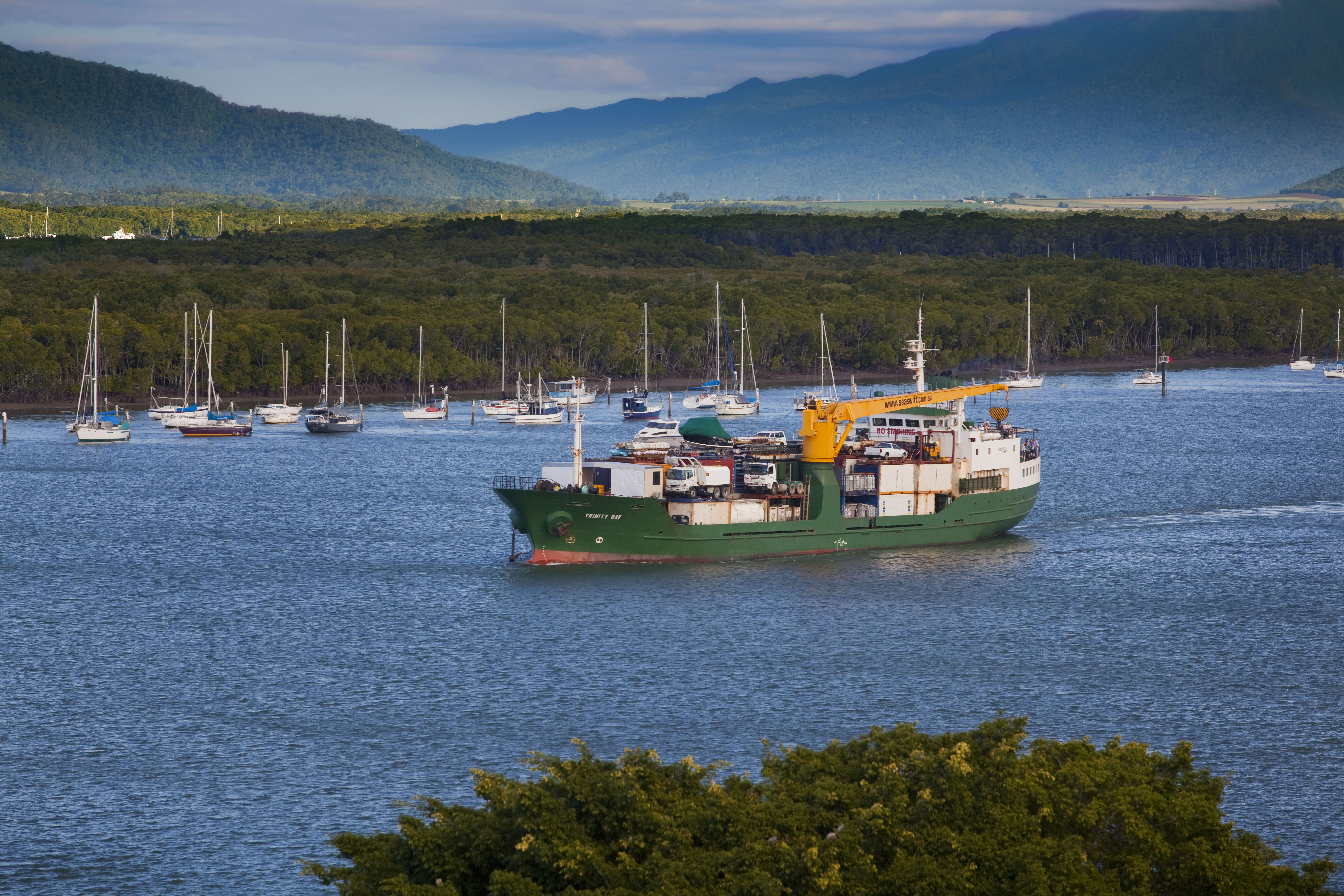 Sea Swift’s MV Trinity Bay steaming to Torres Strait out of Cairns Trinity Inlet